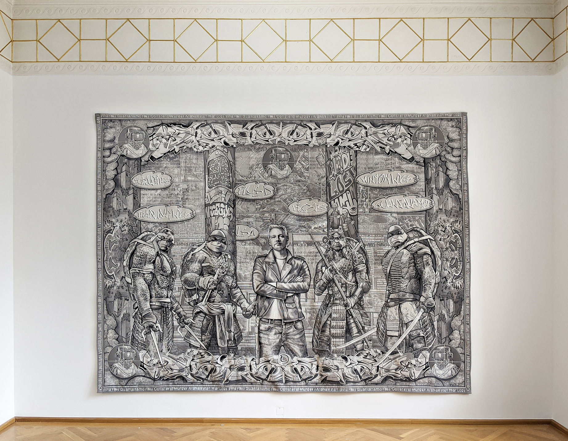 Margret Eicher, Agent Assange, 2020, digital collage / jacquard tapestry, 280 x 350 cm